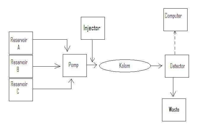 Schematic UPLC